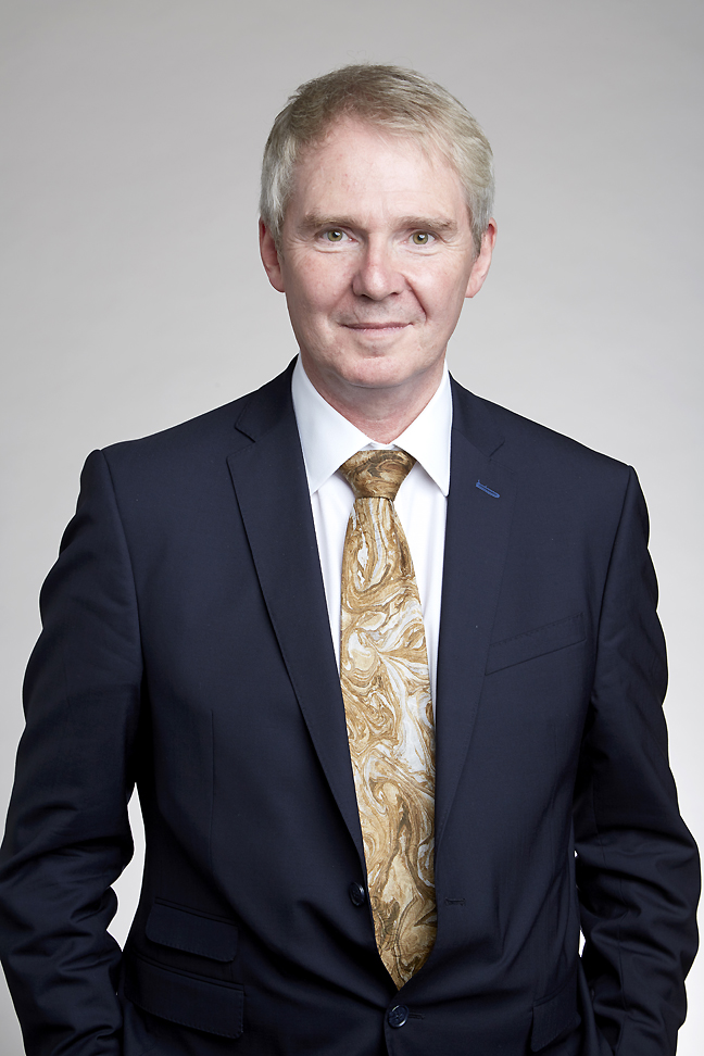 Sir Nigel Richard Shadbolt FRS FREng CITP CEng FBCS CPsychol (born 9 April 1956) is Principal of Jesus College, Oxford, and Professorial Research Fellow in the Department of Computer Science, University of Oxford